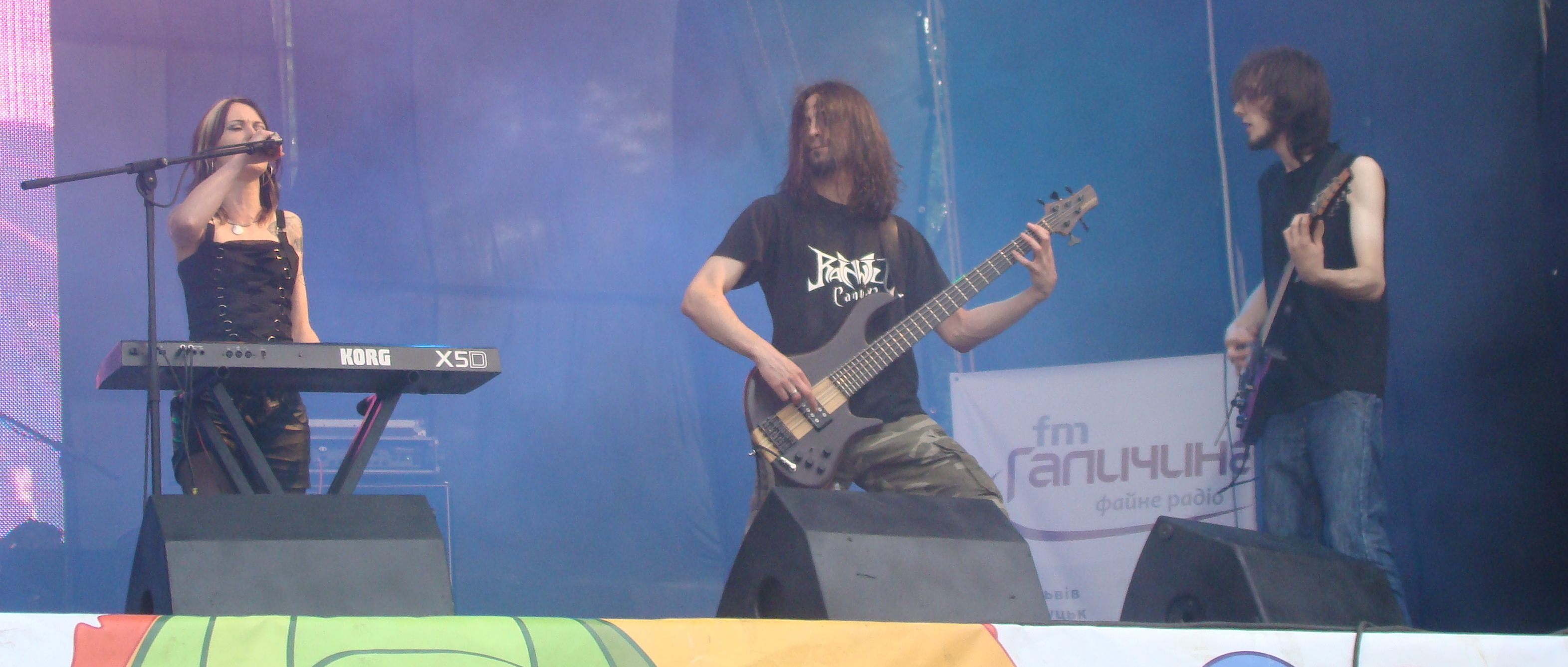 Swamp FM during their appearance in the Fort.Missia festival 2011.